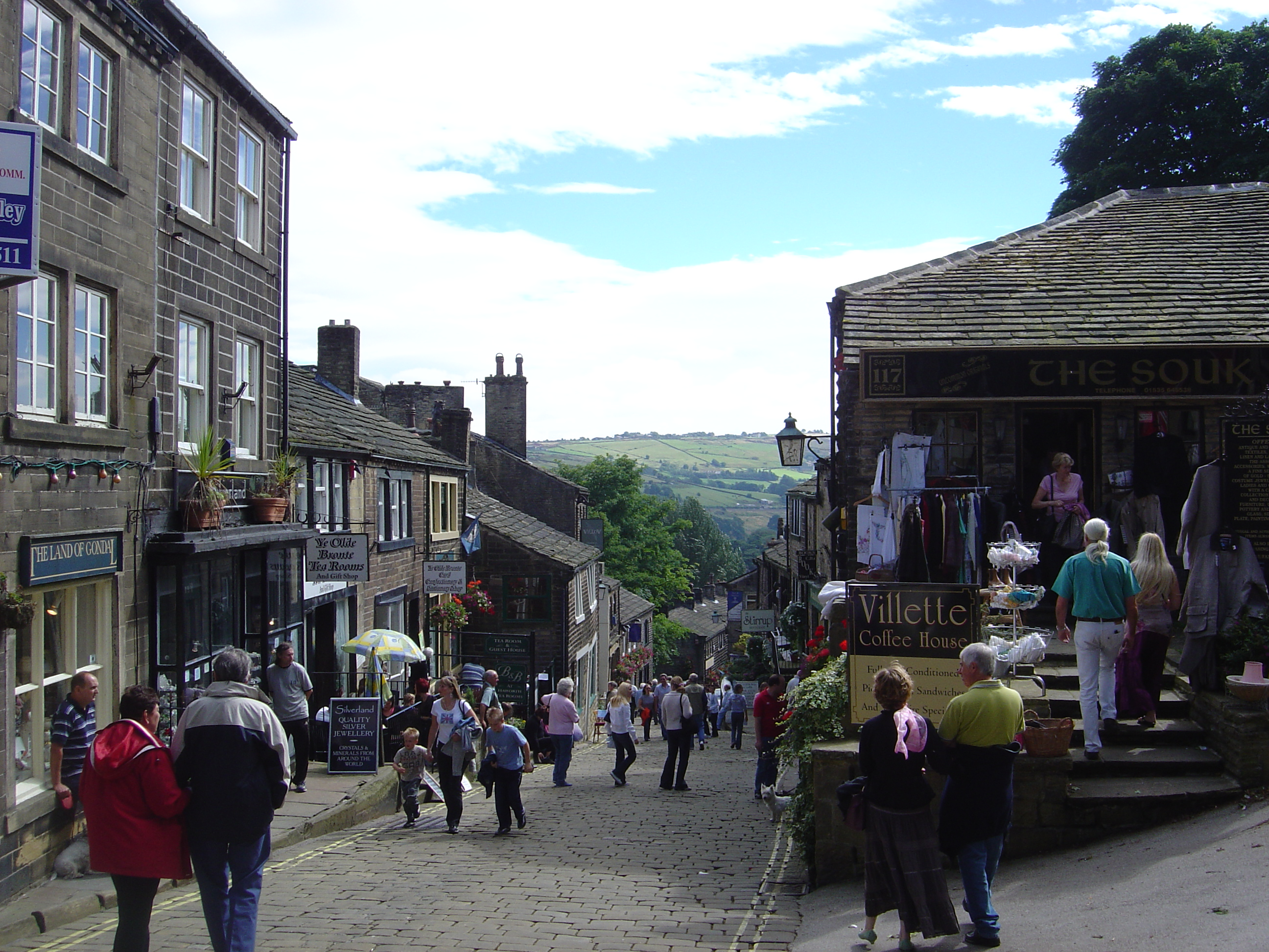 Haworth, West Yorkshire. Looking south down Main Street (that is its name) from grid reference SE030372. 28 August 2005. This image is free to use. taken by user:SpaceMonkey